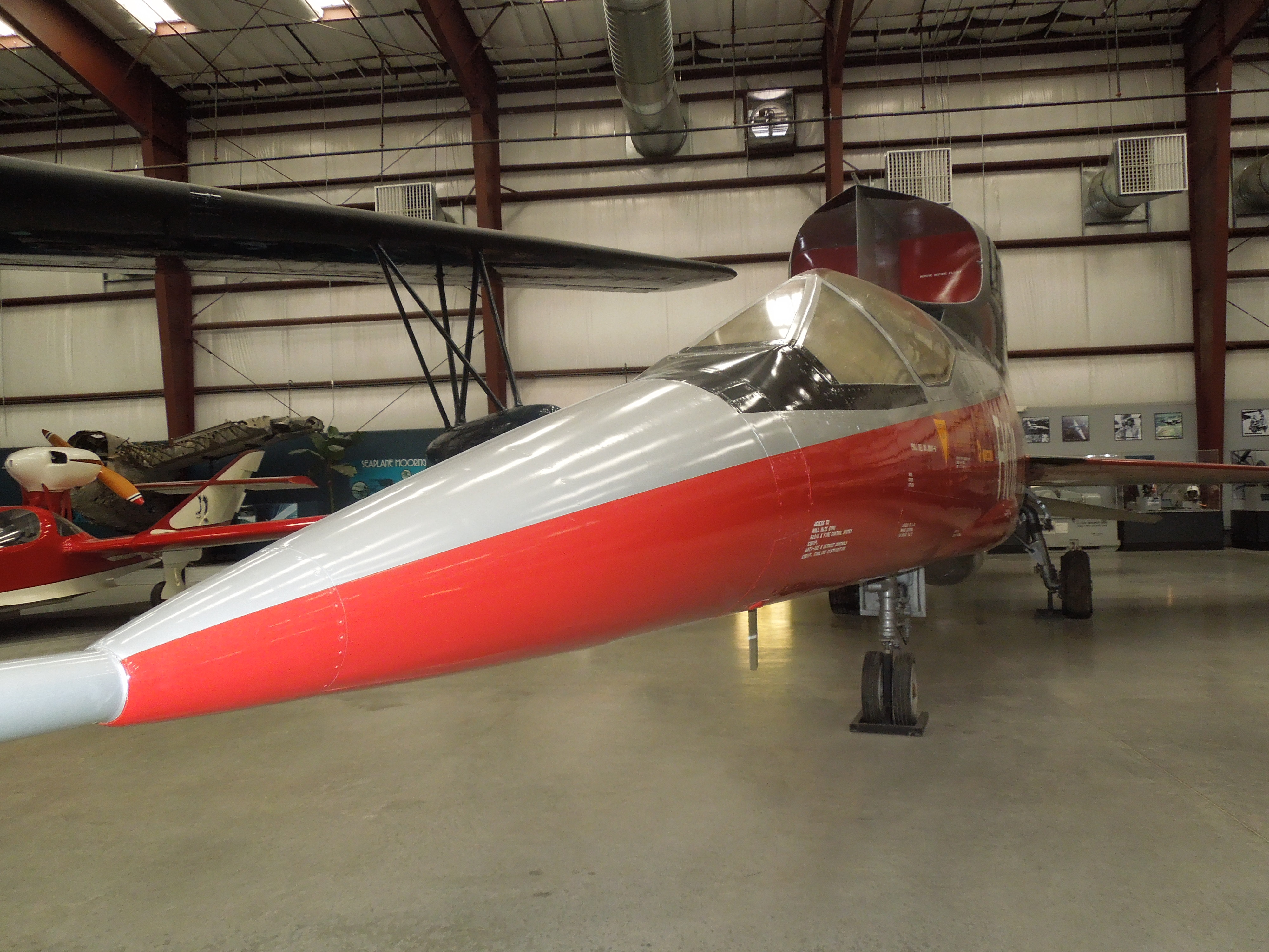 Pima Air & Space Museum